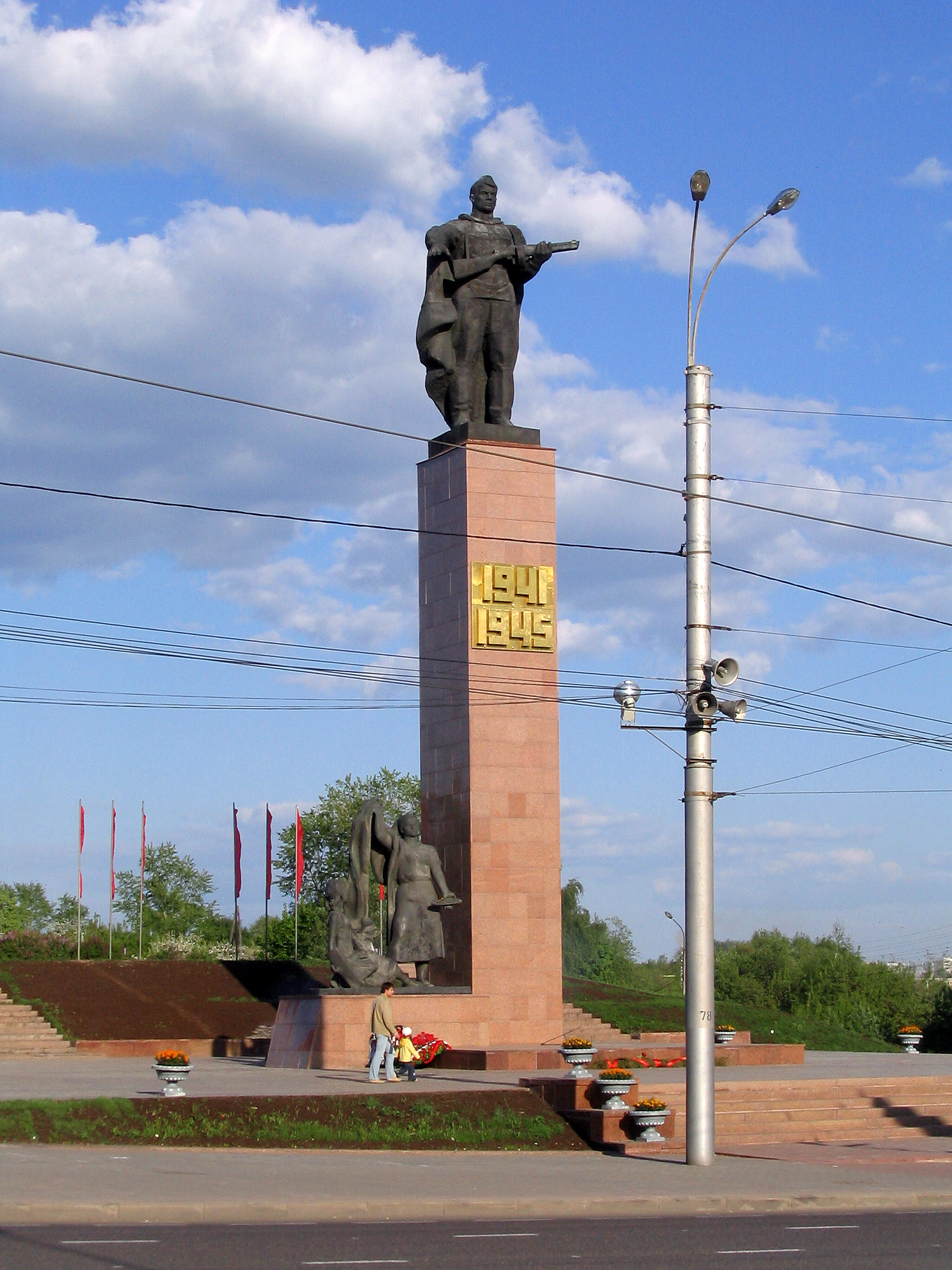 World War II monument (Ivanovo, Russia)